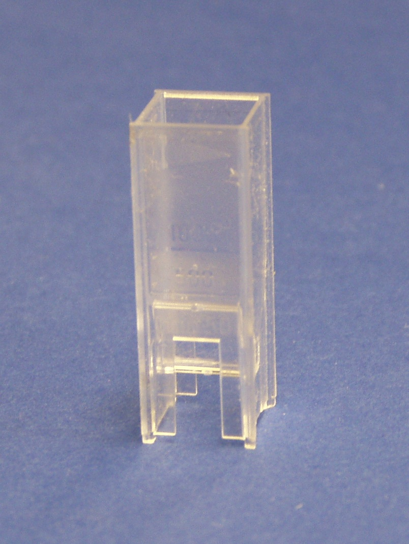 This plastic cuvette is used in a spectrophotometer to measure DNA and RNA concentrations.